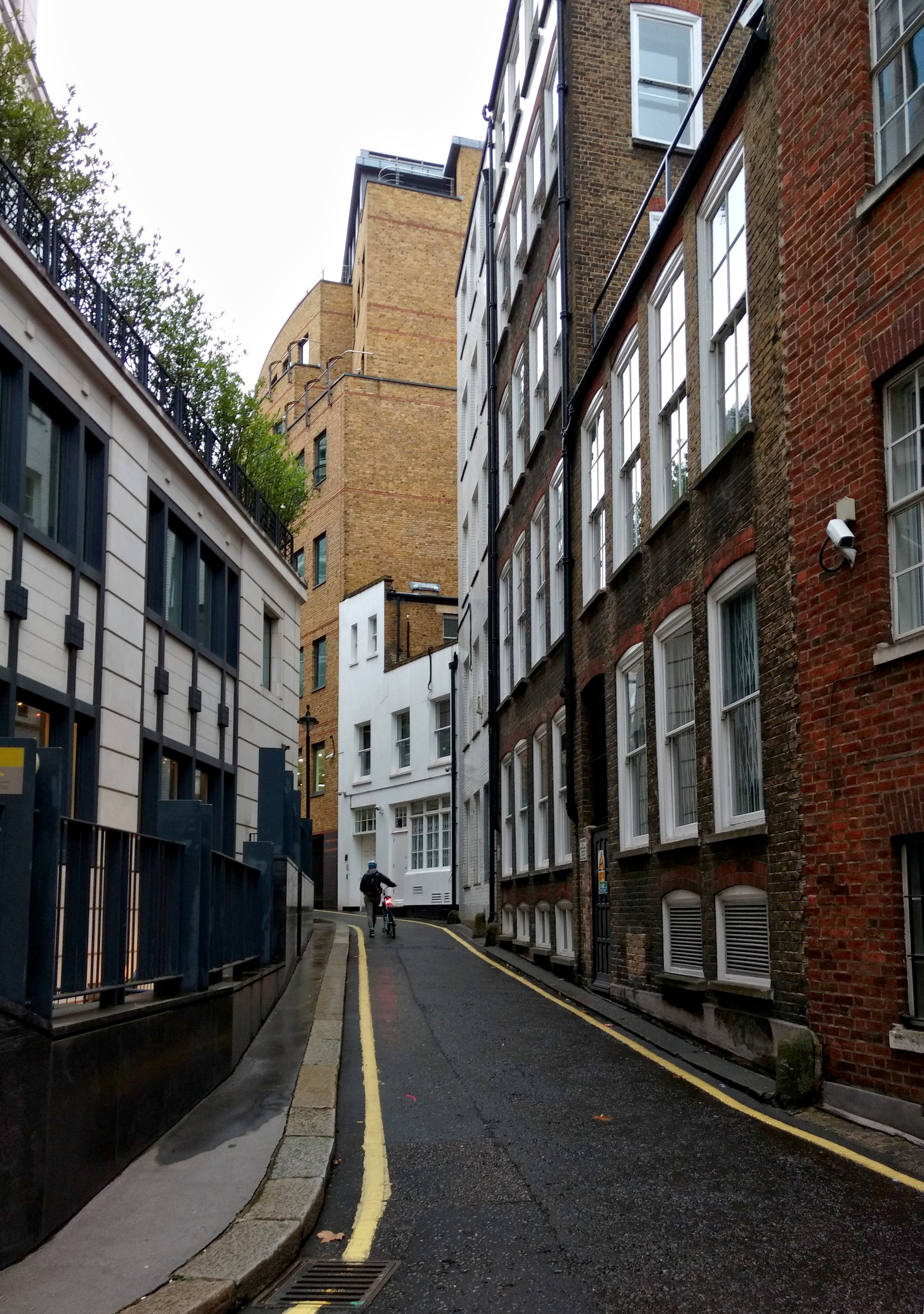 MIlford Lane 7 Jan 2017 This part of the street can be seen in the Miss Marple episode "At Bertram's Hotel" (1987).